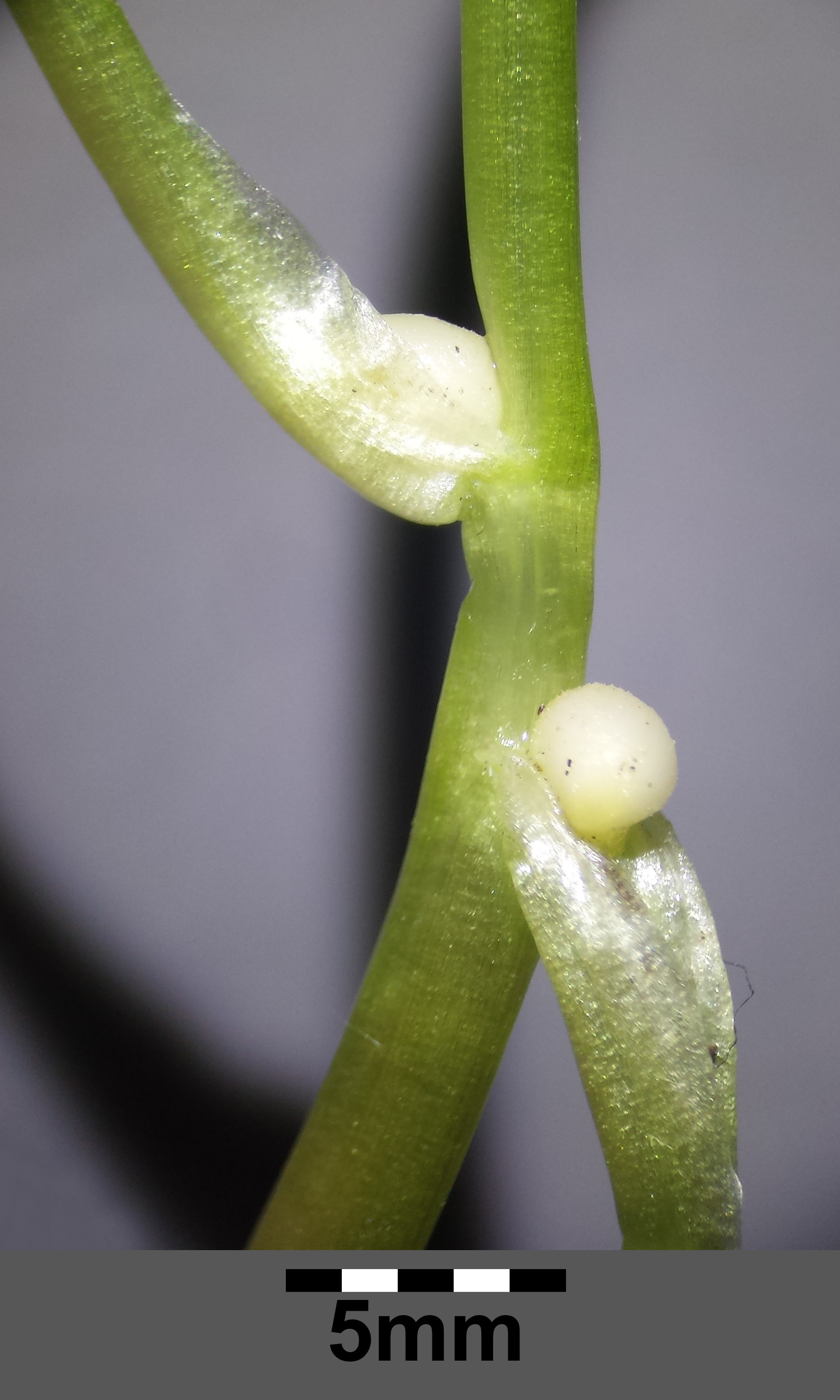 Axilla with bulbils Taxonym: Ficaria verna ss Fischer et al. EfÖLS 2008 ISBN 978-3-85474-187-9 Location: Wasserpark, Vienna-Floridsdorf - ca. 160 m a.s.l. Habitat: border of a shrubbery